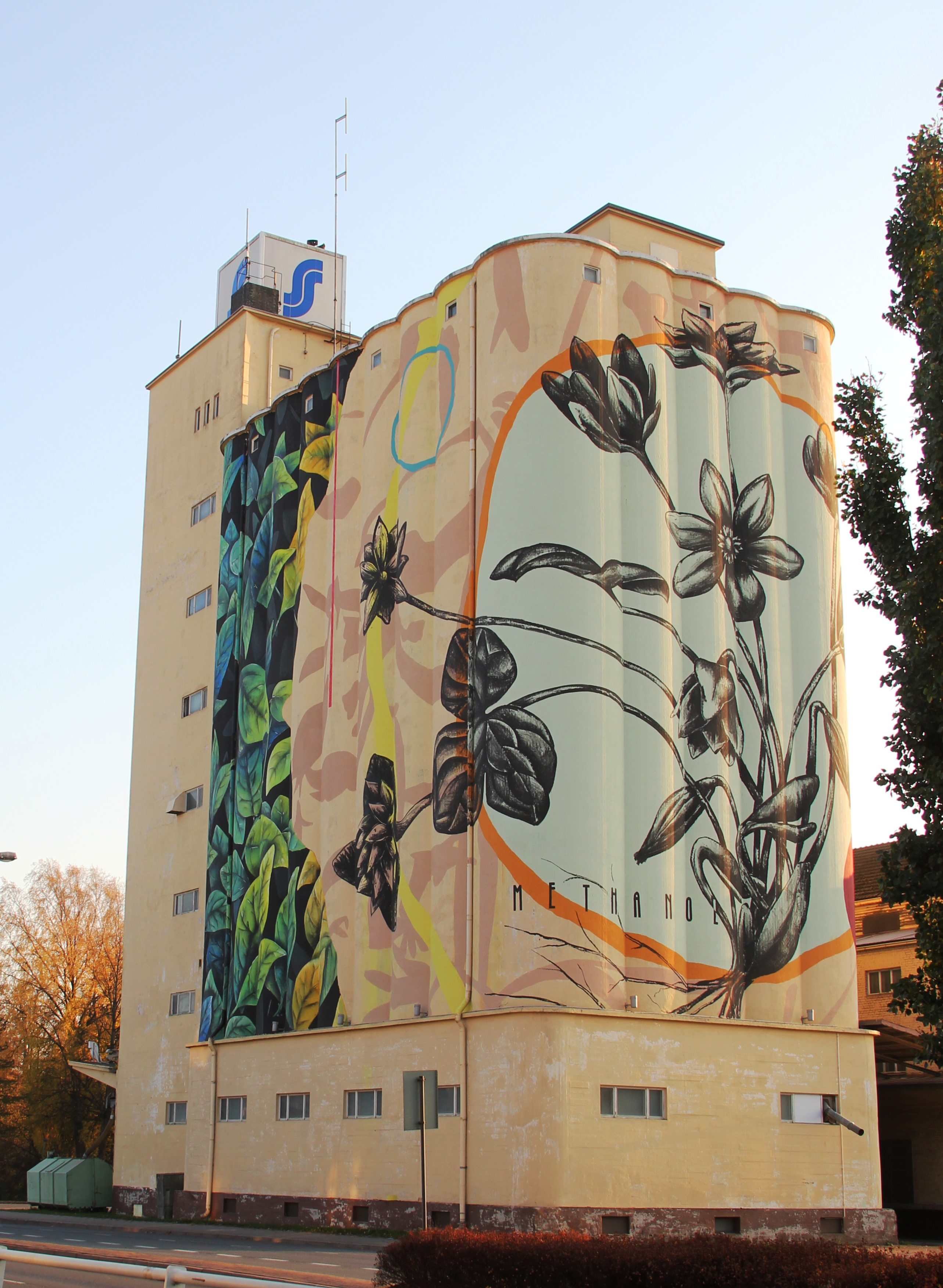 Grain elevator of Suur-Seudun Osuuskauppa, in Mariankatu 12, Salo, Finland